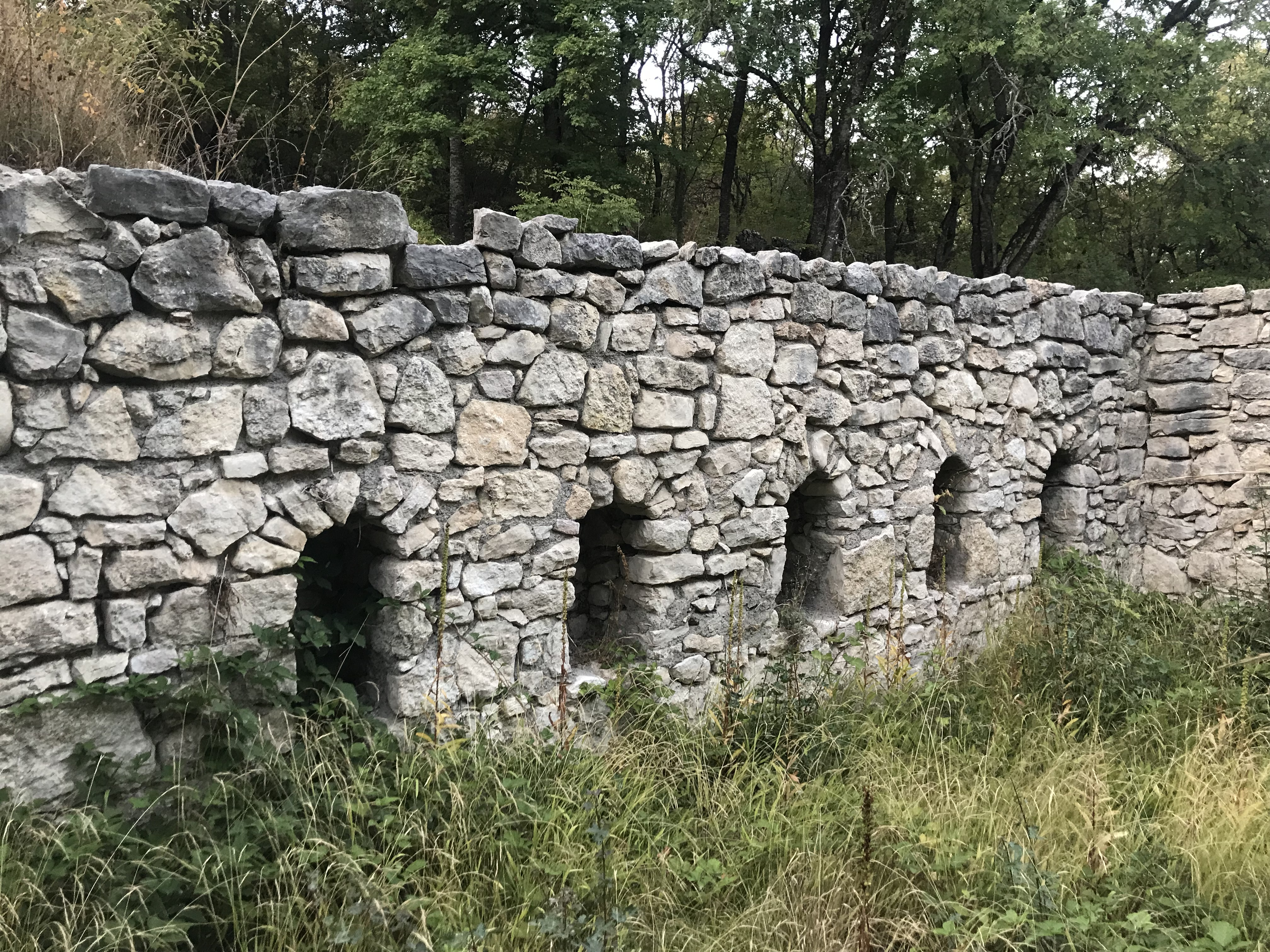 Բովուրխանի վանք 17-18-րդ դար